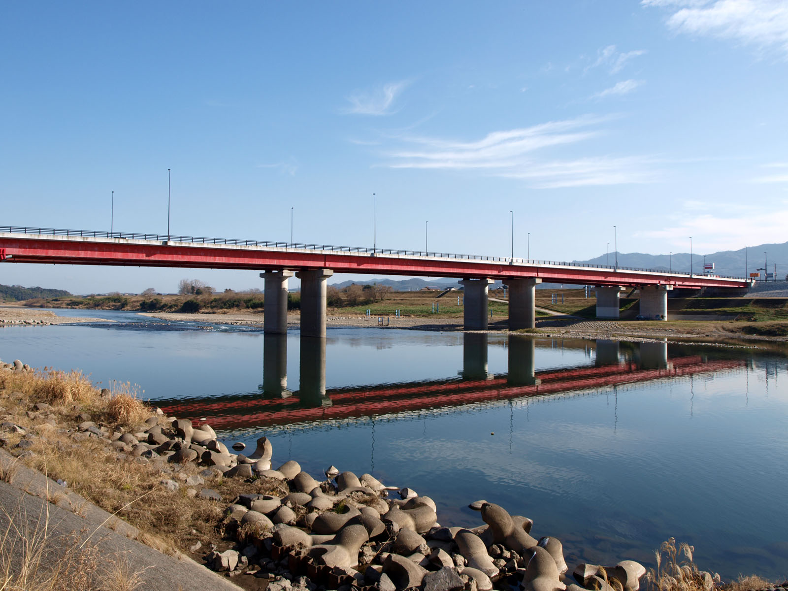 Shirataki Bridge over Ohno River, Oita, Oita, Japan